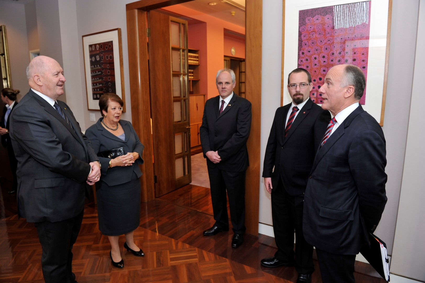 The Governor-General Sir Peter Cosgrove and Lady Cosgrove talk with Senator John Madigan, Senator Ricky Muir and Senator Eric Abetz, on the occasion of the swearing-in of new Senators, at Parliament House, Canberra.